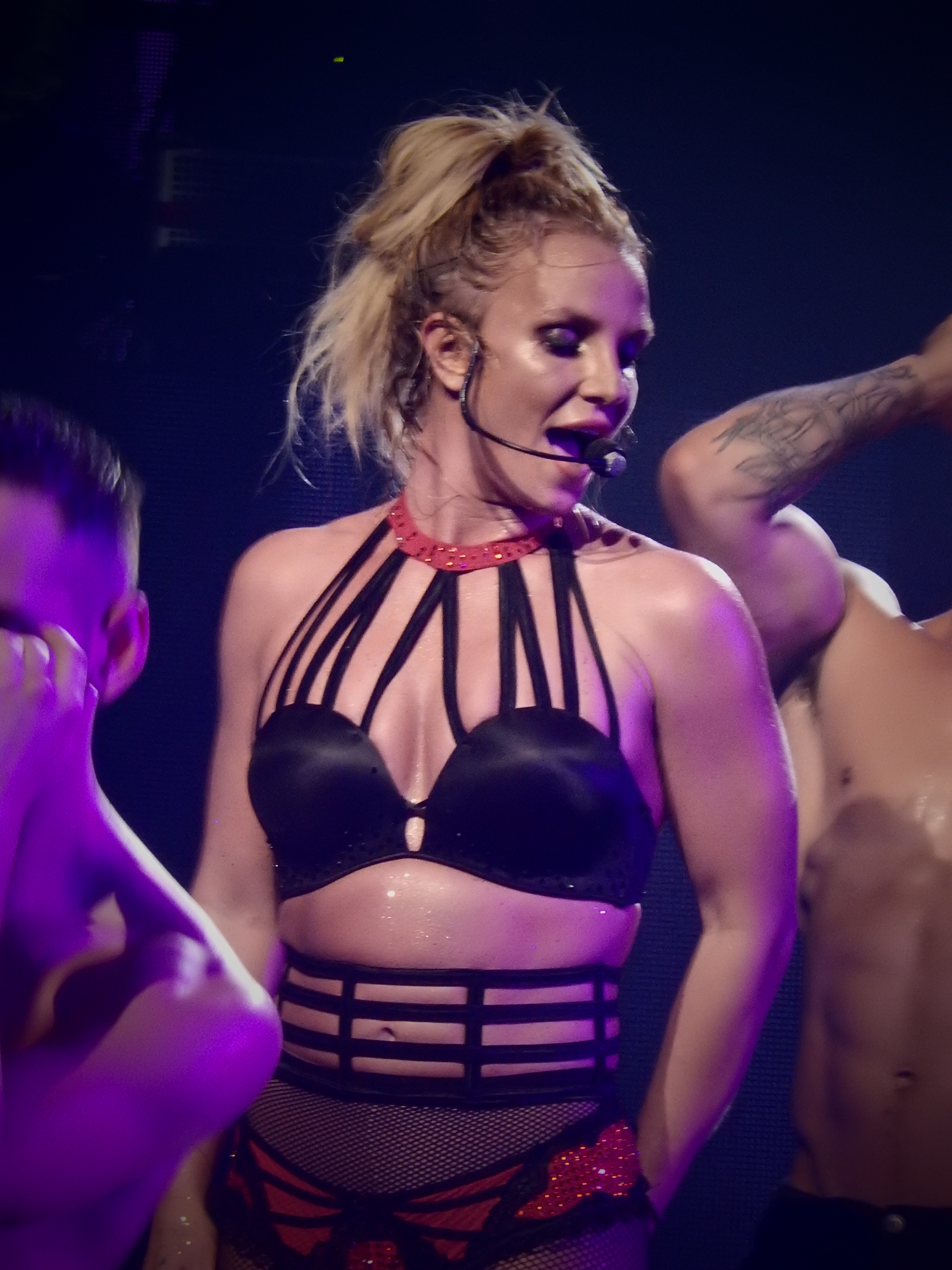 Britney Spears, Roundhouse, London (Apple Music Festival 2016)